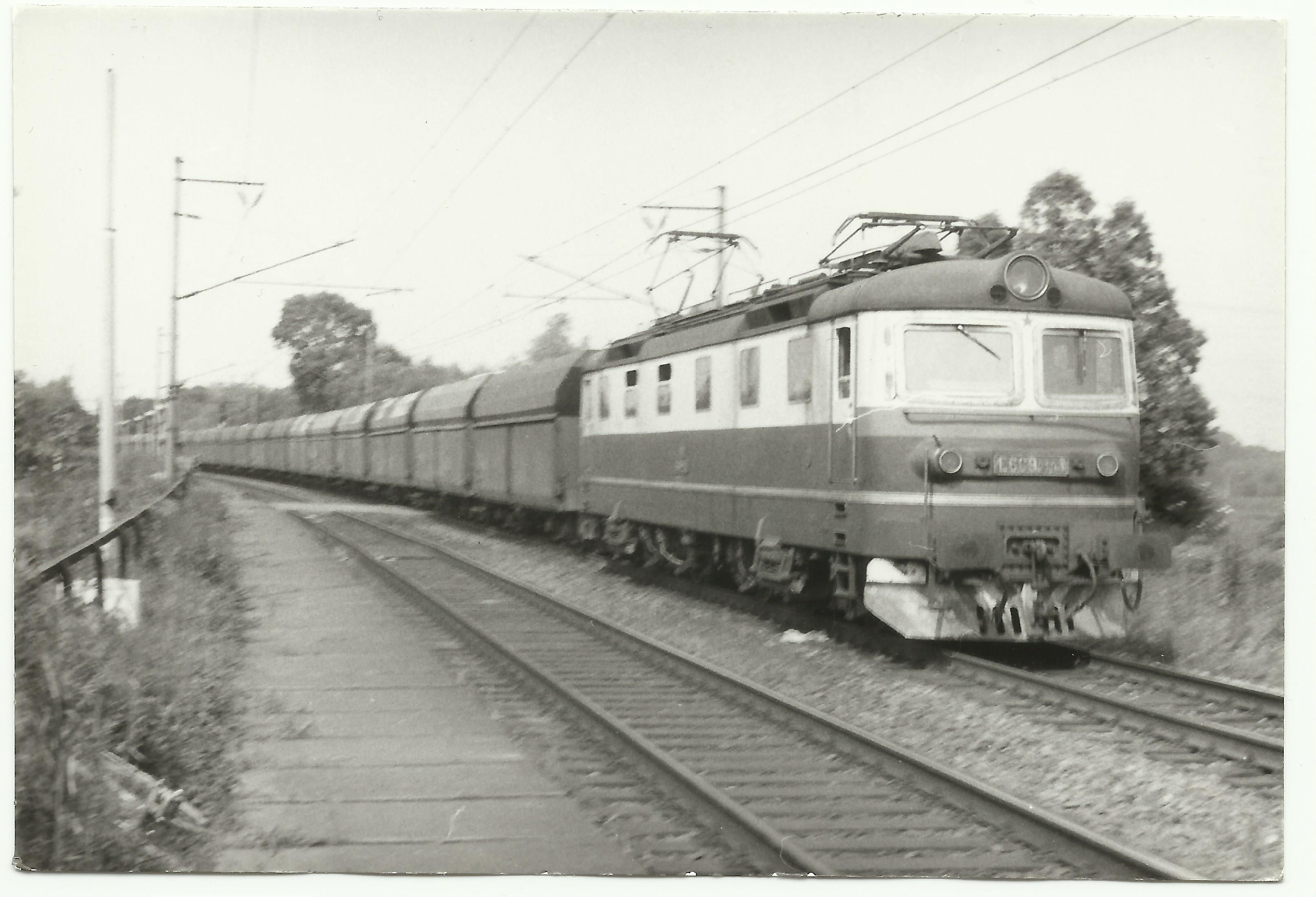 E 669 2134, Polanka n. Odrou 1989 (Czechoslovakia).